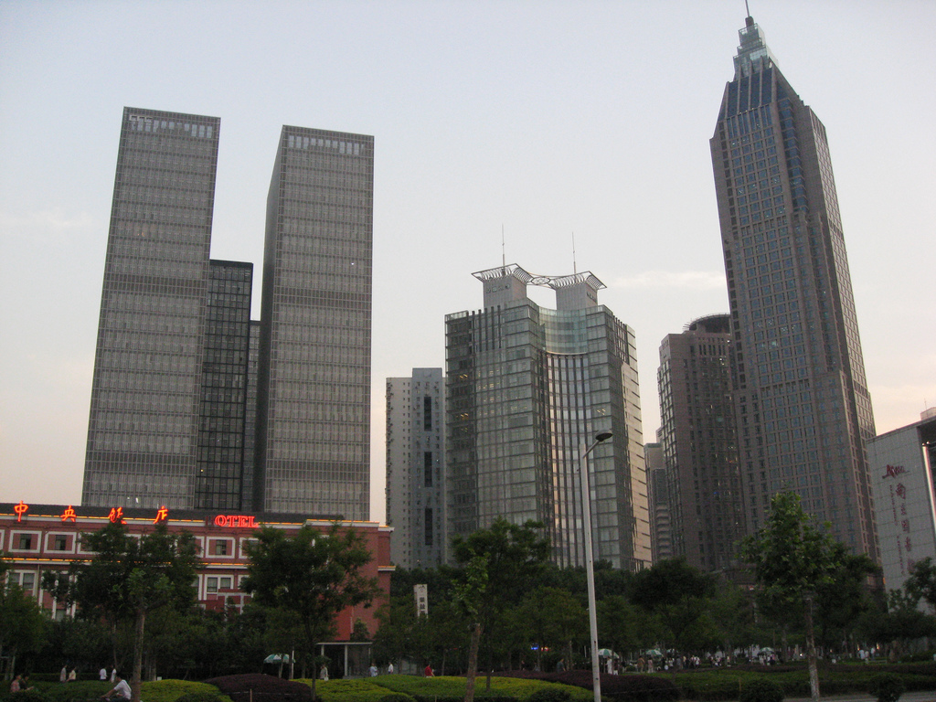 This is downtown Nanjing. When we first arrived the city was more polluted than anywhere else we'd been in China. But by late afternoon, it was clear and the city was actually really nice.